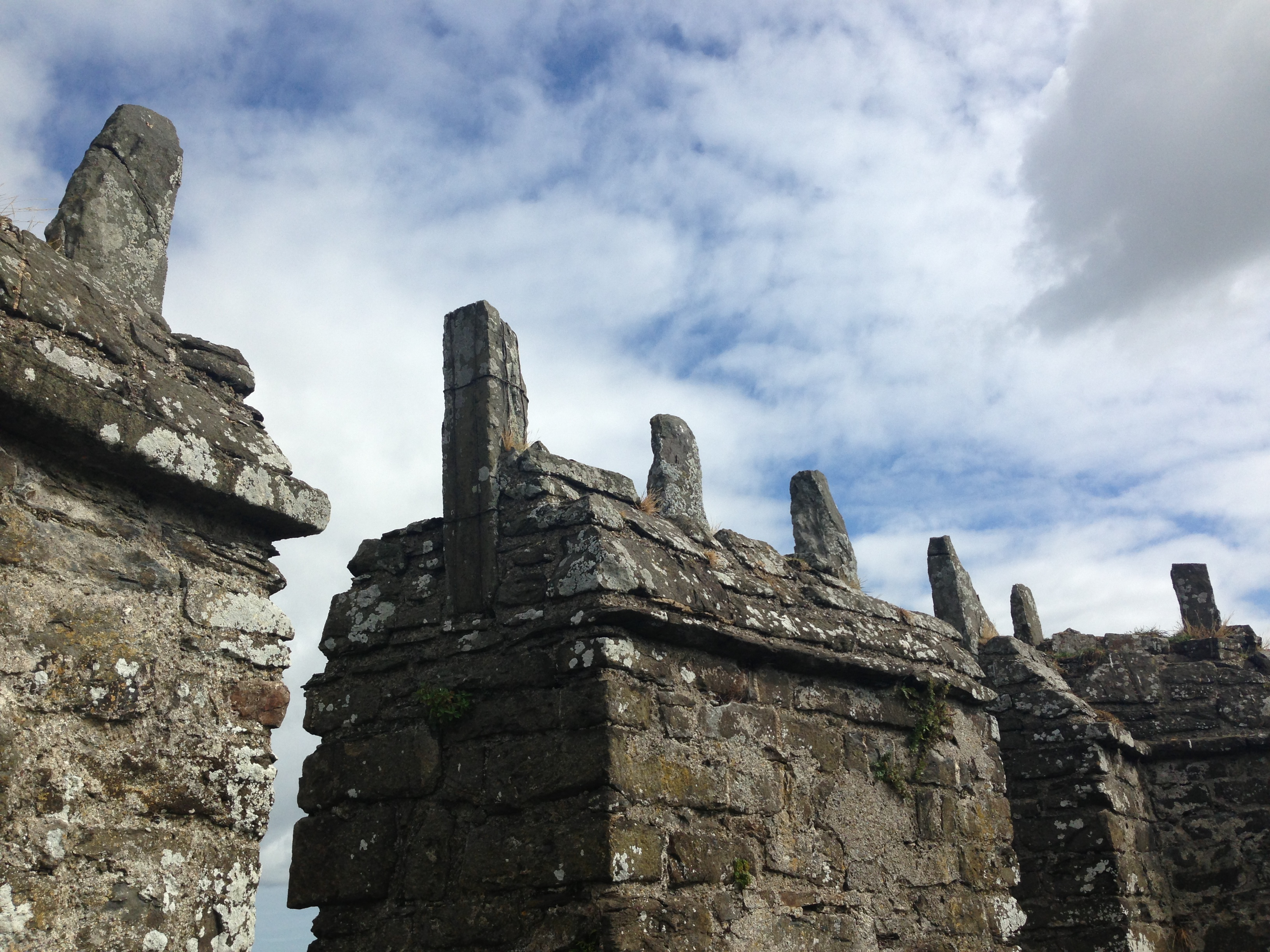 Finials at Conwy Castle